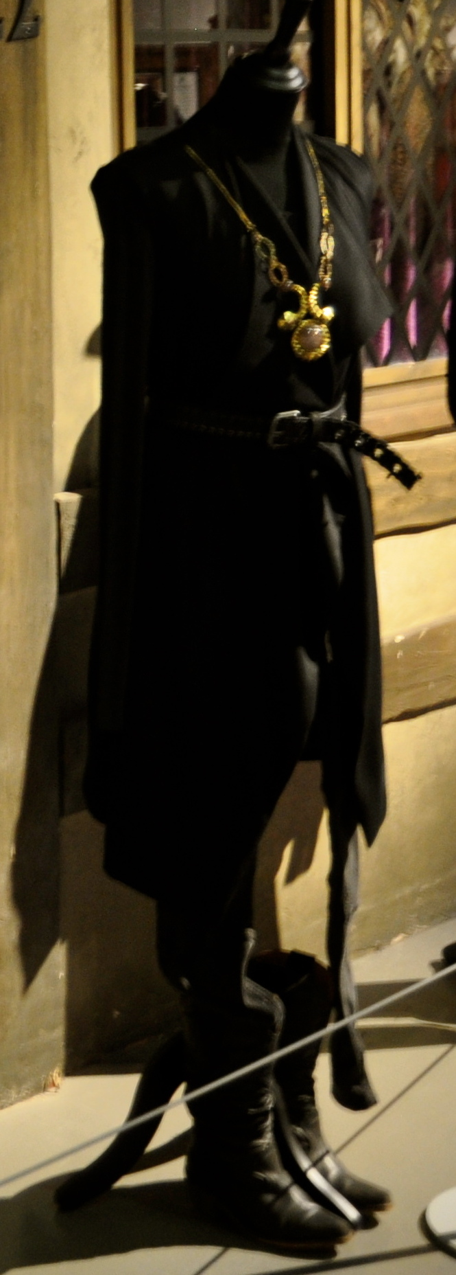 DWE Cardiff Bay, Port Teigr November 2016 Doctor Who Experience